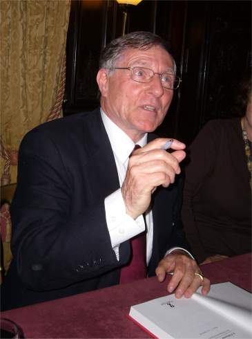 Hans-Christof von Sponeck; during the launch of his book in London 2007